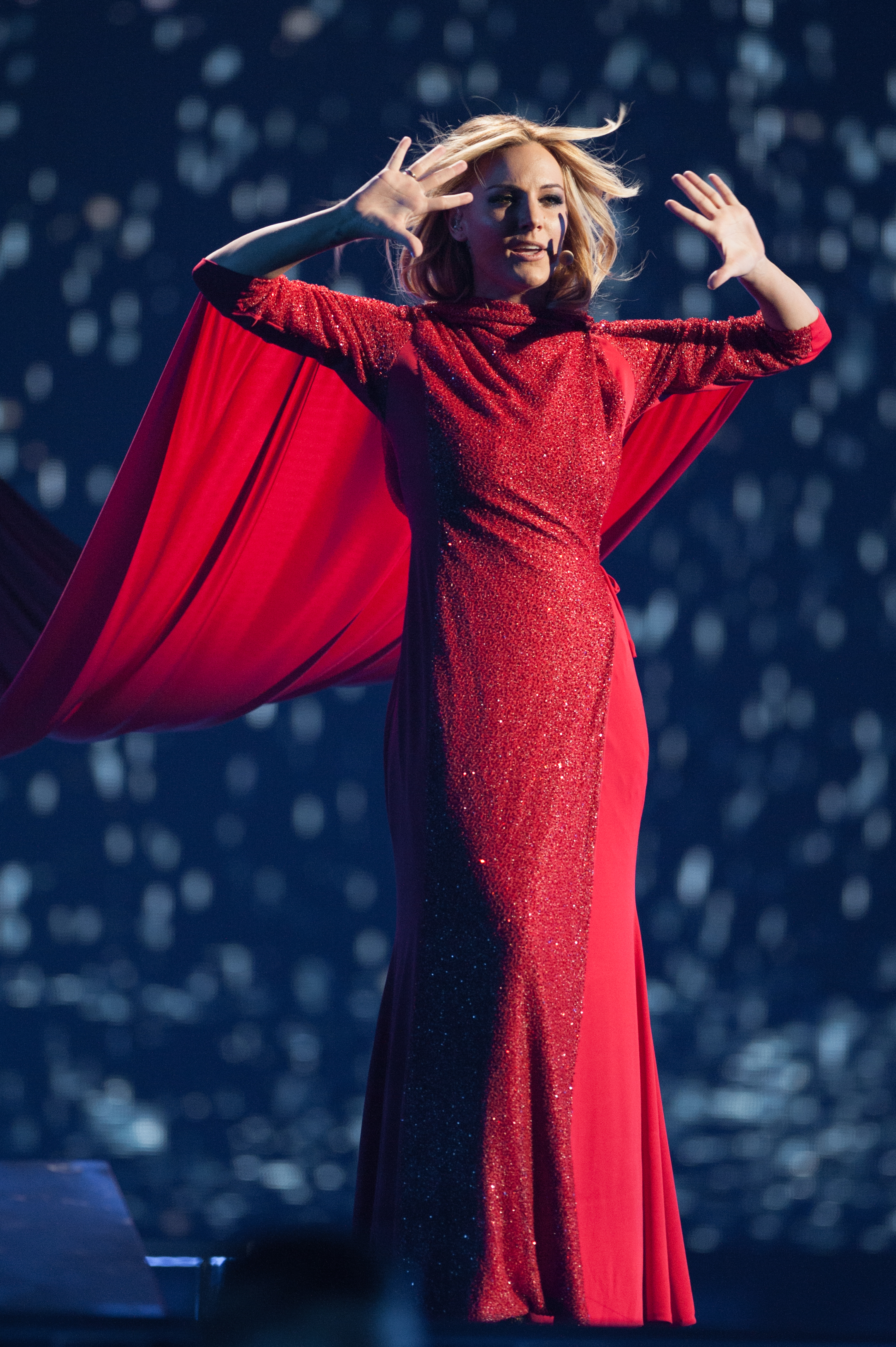 Eurovision Song Contest Vienna 2015: Edurne